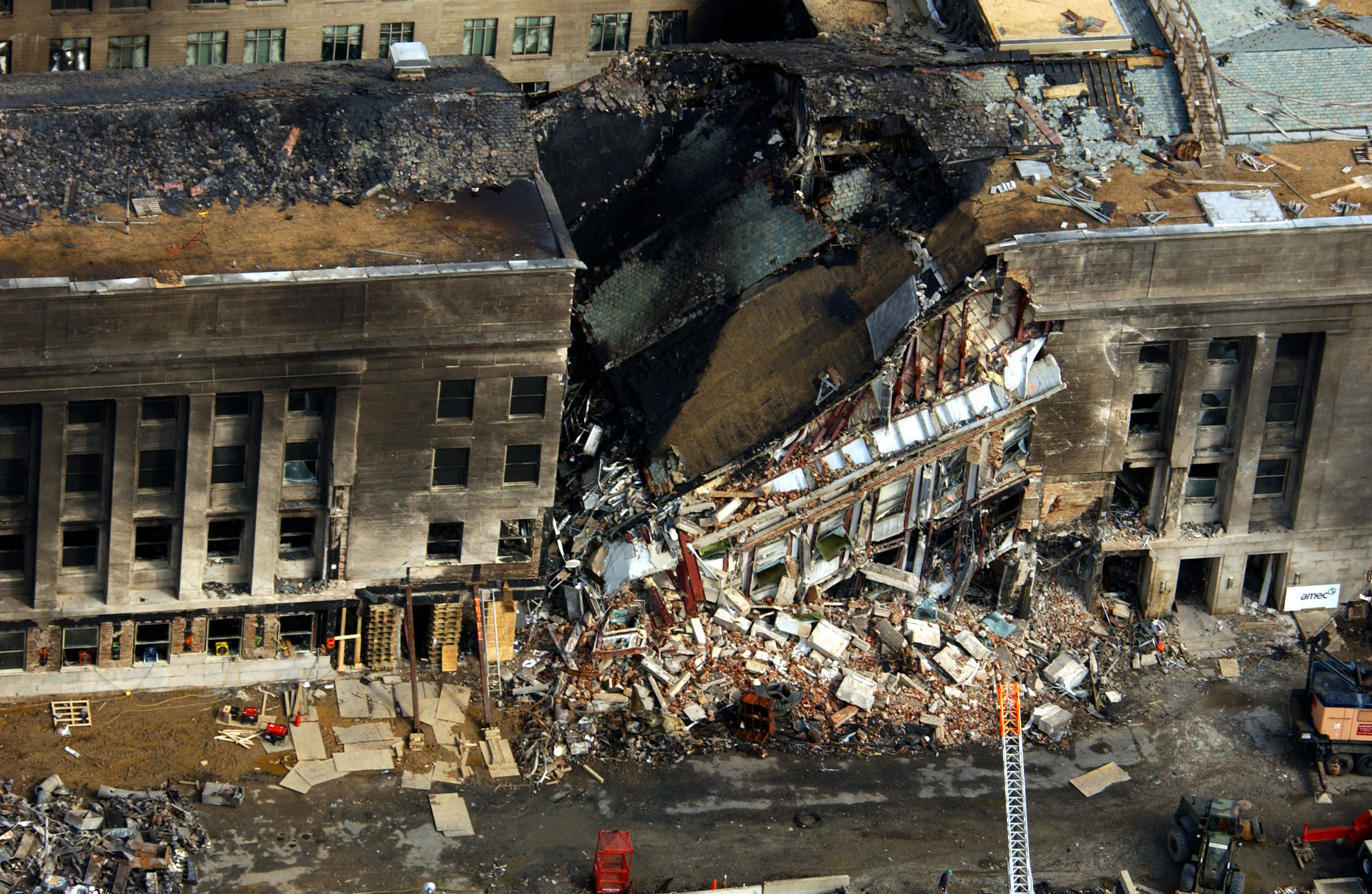 Arlington, Va. (Sep. 14, 2001) -- Aerial view of the destruction caused when a hijacked commercial airliner crashed into the Pentagon on Sep. 11th. The terrorist attack caused extensive damage to the Pentagon. American Airlines FLT 77 was bound for Los Angeles from Washington Dulles with 58 passengers and 6 crew. All aboard the aircraft were killed, along with 125 people in the Pentagon. U.S. Navy Photo Courtesy of DoD Photographer Tech. Sgt. Cedric H. Rudisill (RELEASED)